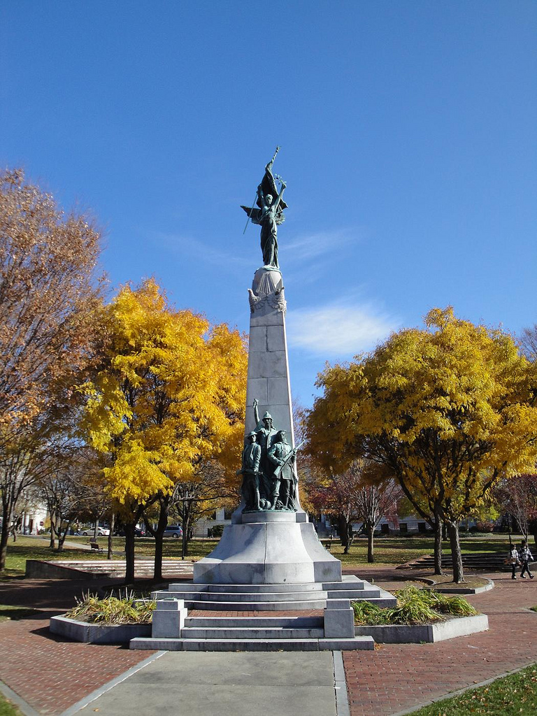 The monument at Victory Park in Manchester, New Hampshire.